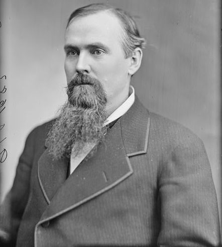 Kentucky Congressman James A. McKenzie.